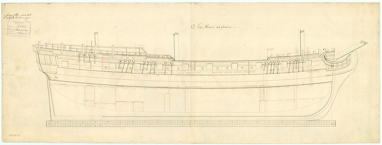 SEAHORSE 1748 sheer & profile NMM, Progress Book, volume 2, folio 397 states that 'Seahorse' was surveyed afloat at Deptford Dockyard in January 1770 and was found to need between Small and Middling Repairs. She was docked at Deptford Dockyard on 29 April 1770 and the copper removed. Seahorse was undocked on 2 March 1771 having undergone Middling Repairs.